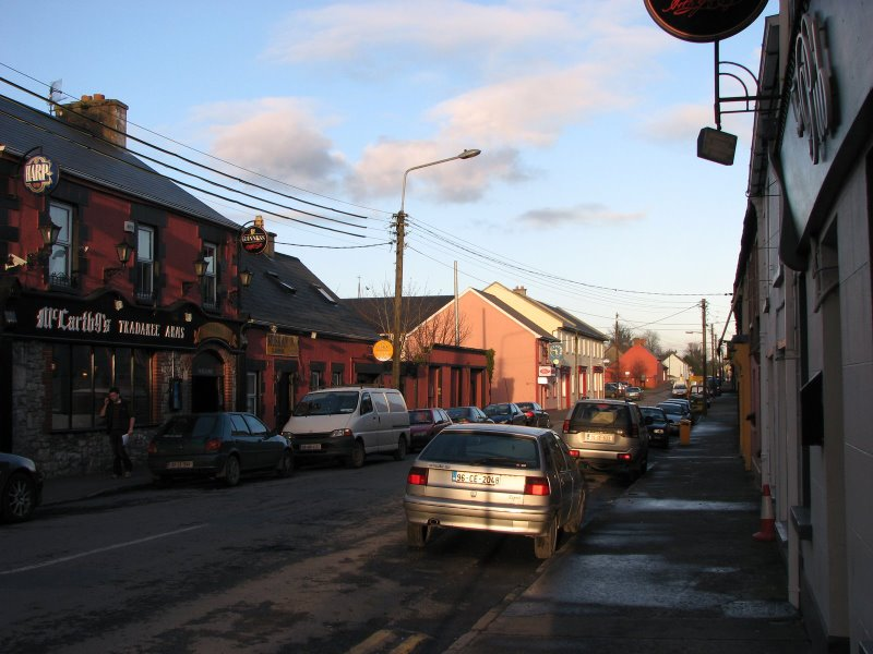 Village center